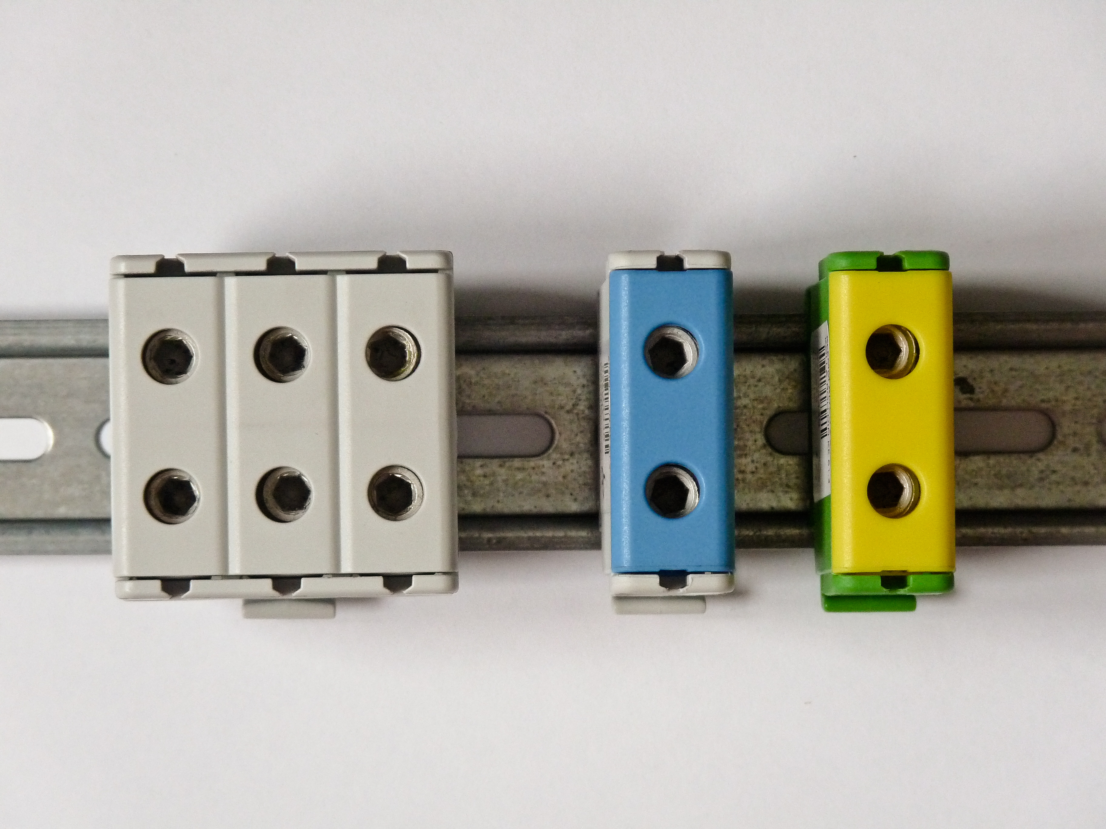 One of widespread mistake done by qualified electricians is joining old aluminium wires with copper. How to be, if there comes old aluminium wires from source side and you should put new copper cable to consumer side? -To do this connection, you should use terminal with separated parts as it's shown on the photo. So, aluminium and copper will be connected to metal which is not conflicting with them. As there no metal conflict, joining will work without any heating or melting. And also without burning smell.